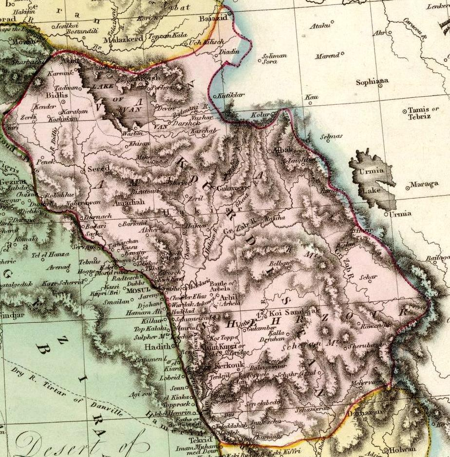 Turkey in Asia. Drawn under the direction of Mr. Pinkerton by L. Hebert. Neele sculpt. 352 Strand. London: published Sepr. 1st. 1813, by Cadell & Davies, Strand & Longman, Hurst, Rees, Orme, & Brown, Paternoster Row.